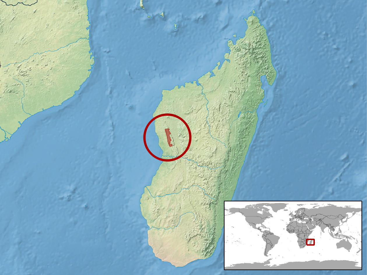 geographic distribution of Phelsuma borai (Native: Madagascar)